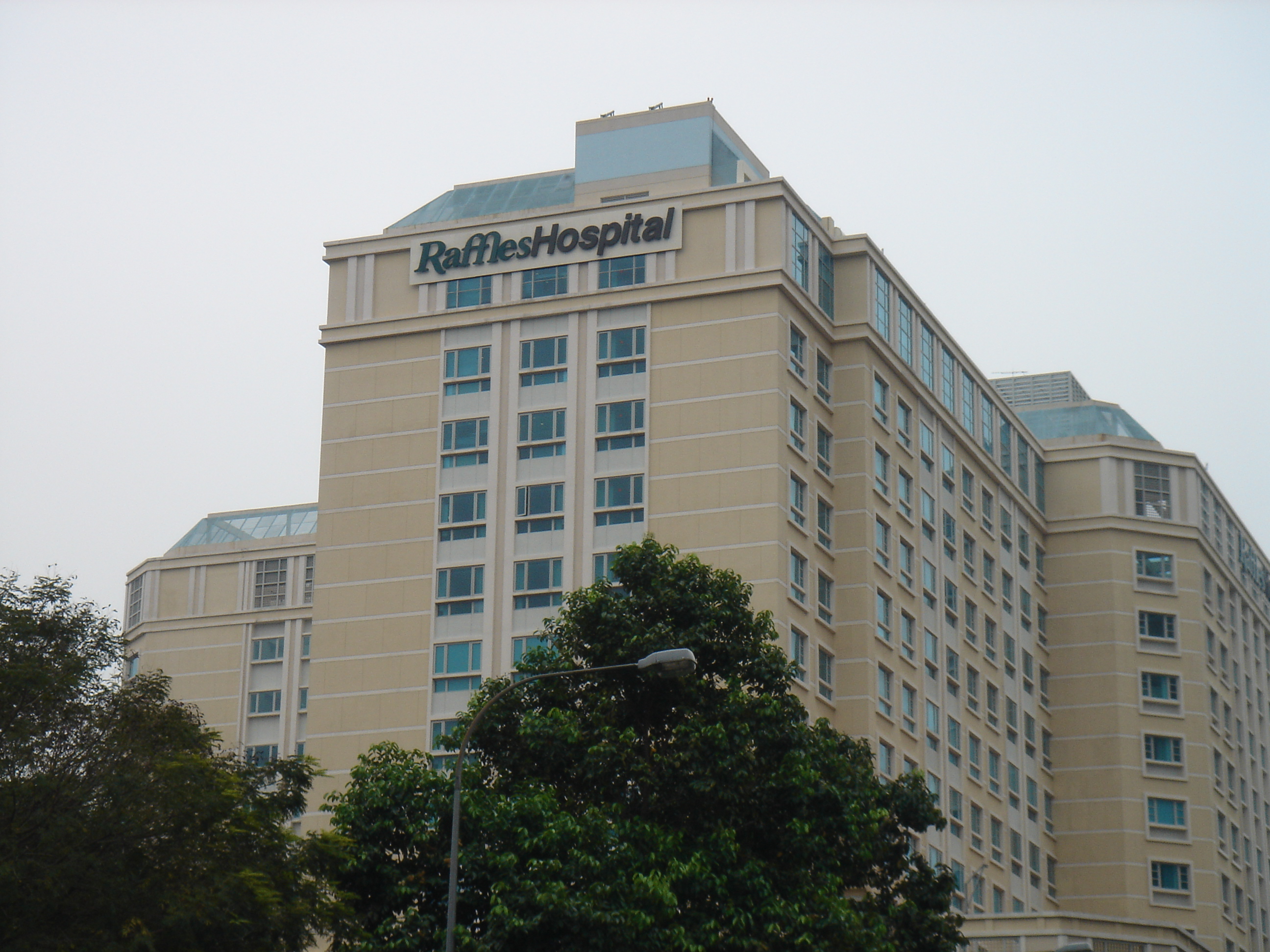 Exterior of Raffles Hospital, North Bridge Road, Singapore.